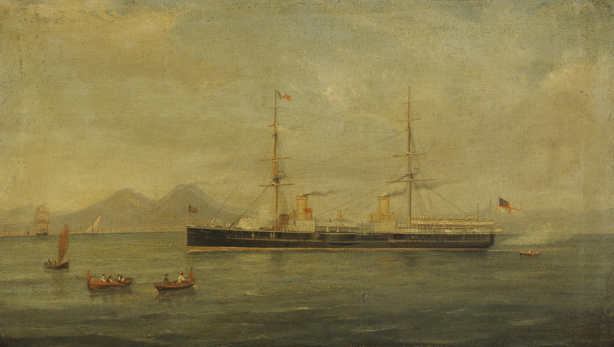 HMS 'Inflexible'